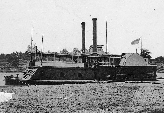 From U.S. Navy public domain Photo #: NH 61569 USS Fort Hindman (1863-1865) Photographed during her Civil War service on the Western Rivers. U.S. Naval Historical Center Photograph.